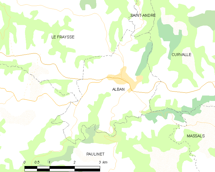 Map of French municipality Alban